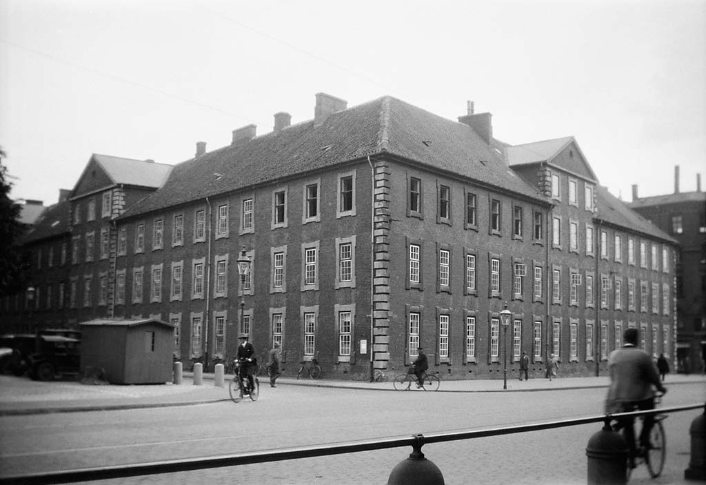 A building in Copenhagen. En byggnad i Köpenhamn. Location: København, Själland, Sjaelland (Zealand), Denmark, Danmark Photograph by: Berit Wallenberg Date: 10.07.1930 Format: Film Persistent URL: Read more about the photo database (in english)